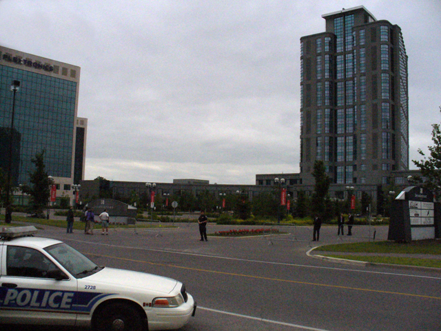 Brookstreet Hotel in Ottawa, Canada